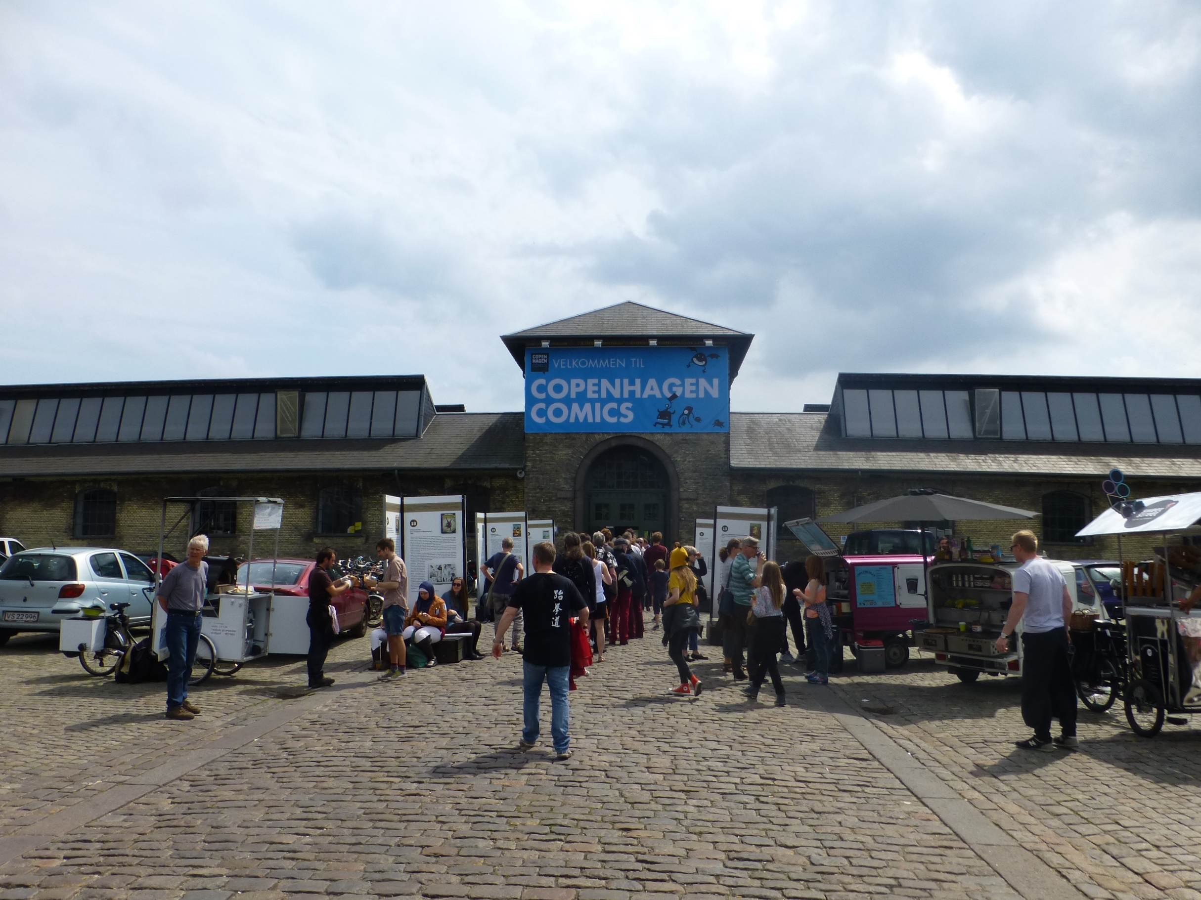 Copenhagen Comics, a Danish festival of comics in Øksnehallen in Copenhagen.